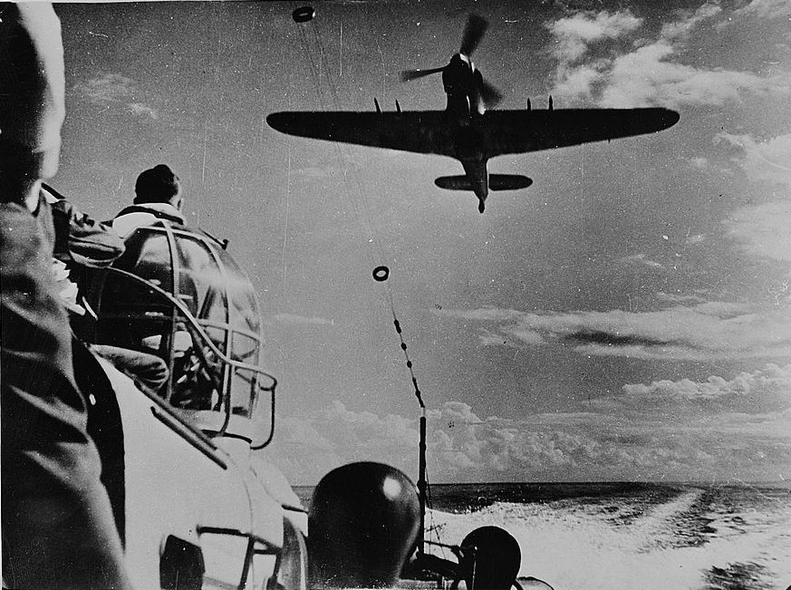 A Royal Air Force Whaleback HSL (high speed launch) is being directed by a low-flying RAF Hawker Hurricane IIC to an American pilot off the North African Coast in 1943.